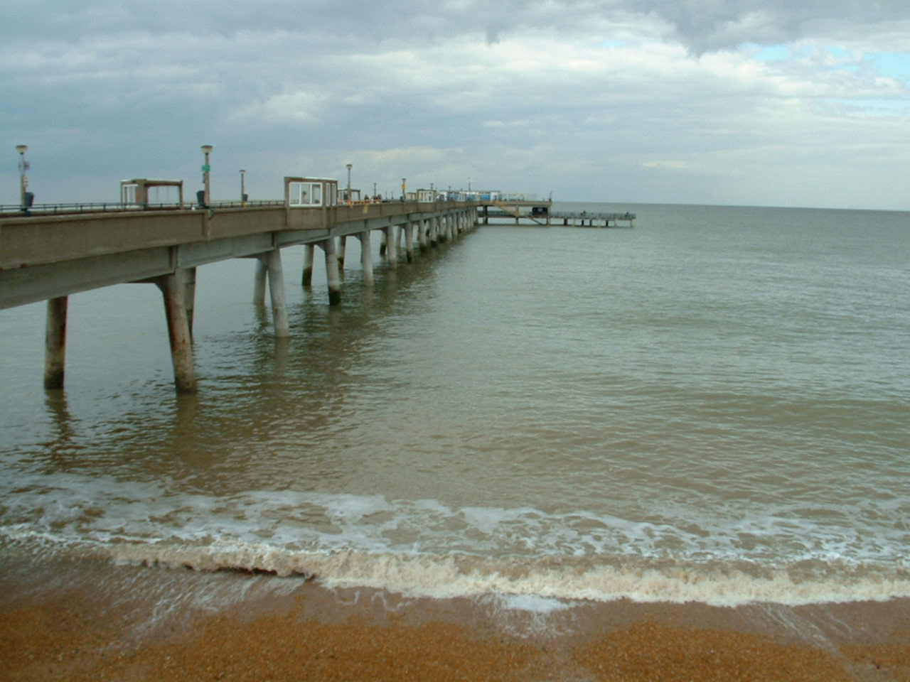 Deal Pier